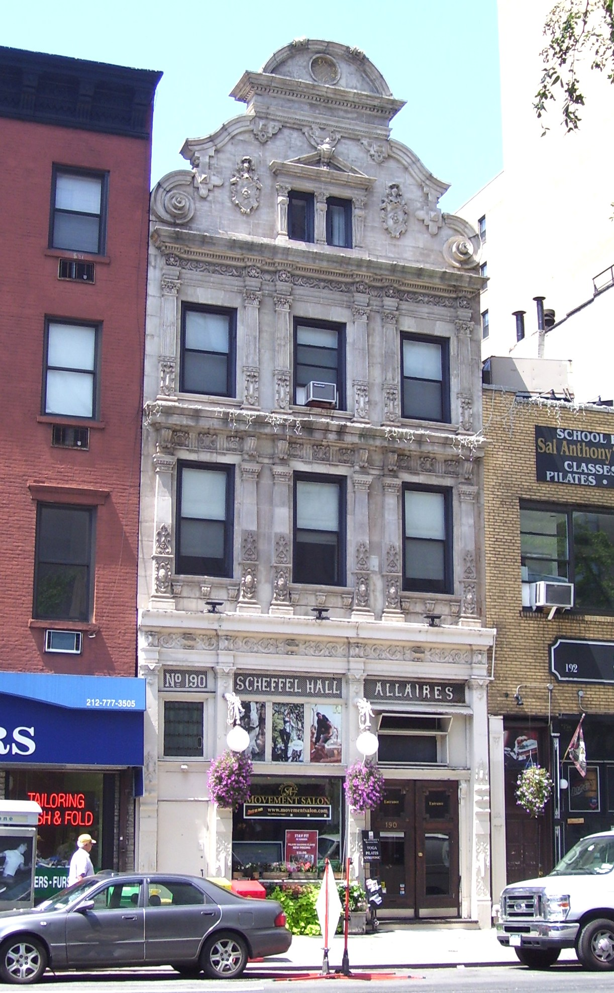 Scheffel Hall (1894-1895, Henry Adam Weber & Hubert Drosser) at 190 Third Avenue, Manhattan, New York City, between 17th and 18th Streets, was originally part of a local German-American community, then spent many years as the jazz club "Fat Tuesday's". It was designated a NYC landmark in 1997.